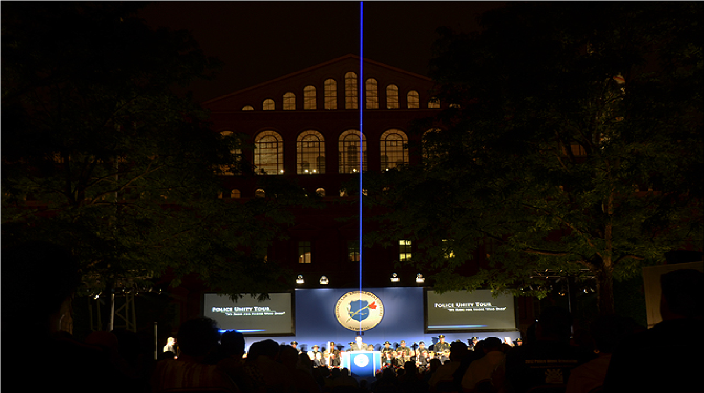 A blue laser elluminates during a vigil being held on front of the National Law Enforcement Officers Memorial during the Police Unity Tour on May 11, 2012.